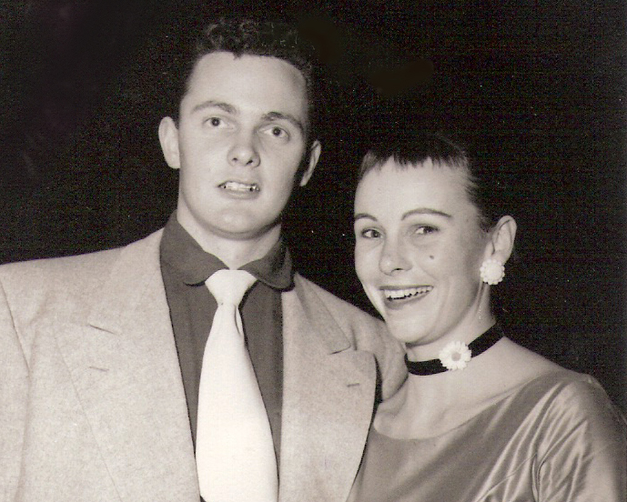 Paule Jean Myers-Pope and husband Karl Pope